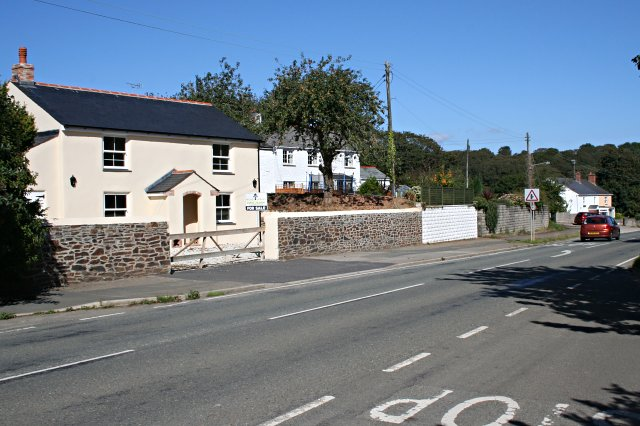 Hewas Water. Hewas Water is a hamlet to the west of Sticker. This shot was taken from the bus stop. The road through the hamlet thankfully has little traffic as the main A390 has been moved to a by-pass just north of the hamlet.